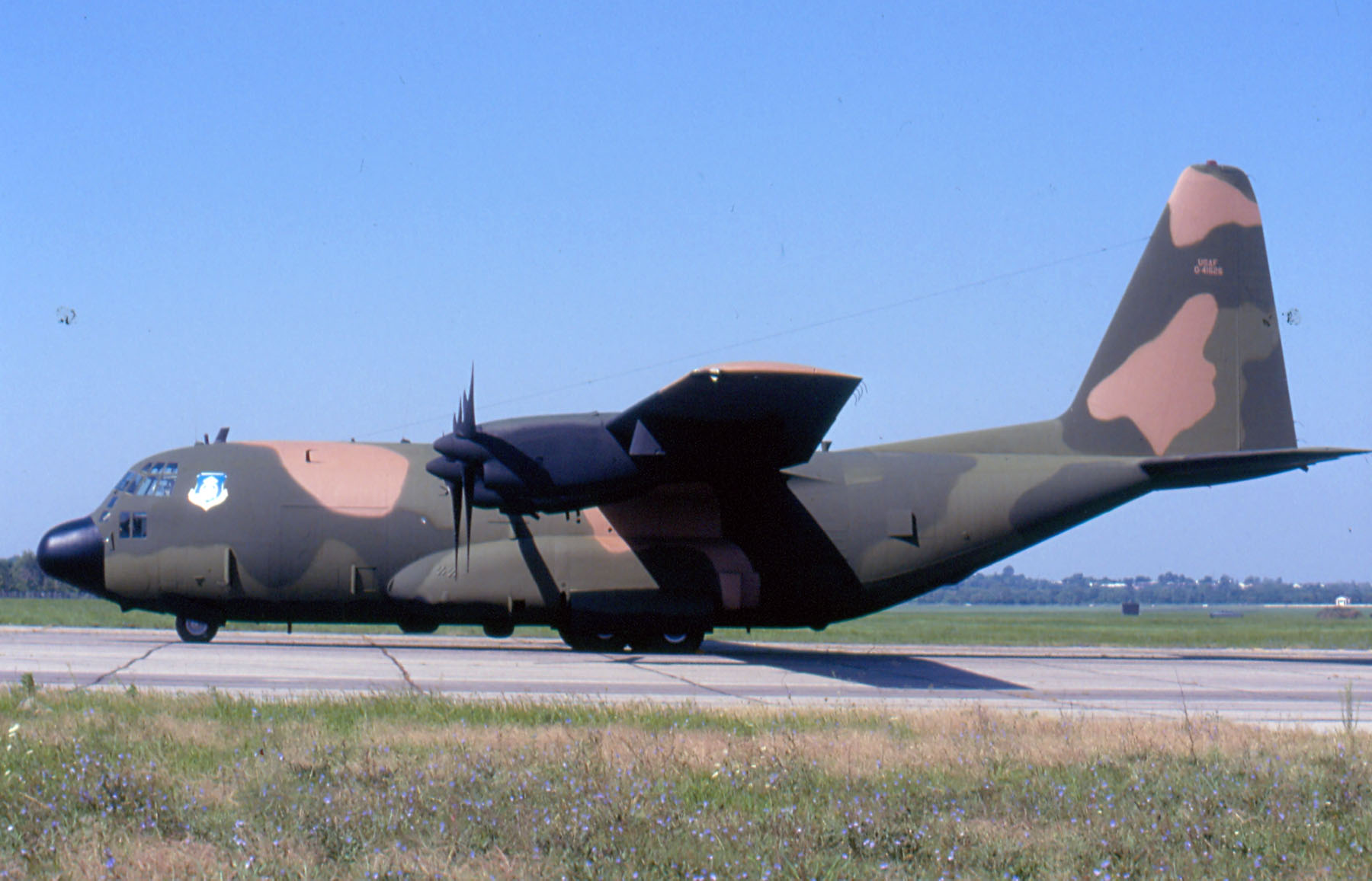 A U.S Air Force Lockheed AC-130A Hercules at the National Museum of the United States Air Force.This aircraft (s/n 54-1626, c/n 182-3013) was built as a C-130A-LM and converted to an JC-130A. Later again it became the AC-130A prototype. It crashed in Vietnam in March 1972 but was repaired and later put on display at the USAF Museum at Dayton, Ohio (USA).